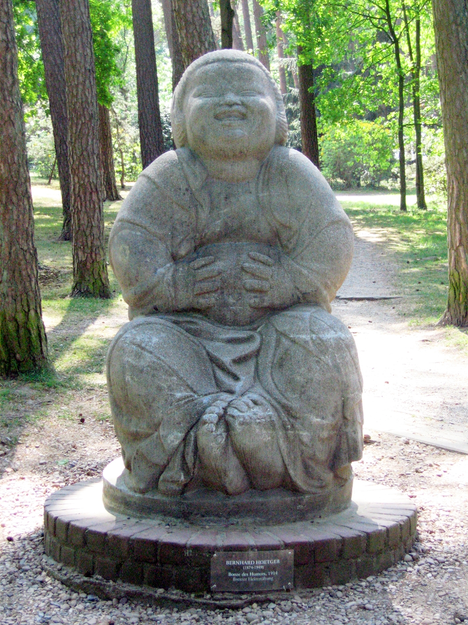 The “Bonze des Humors” (Laughing Buddha) by Bernhard Hoetger in Worpswede, Germany.